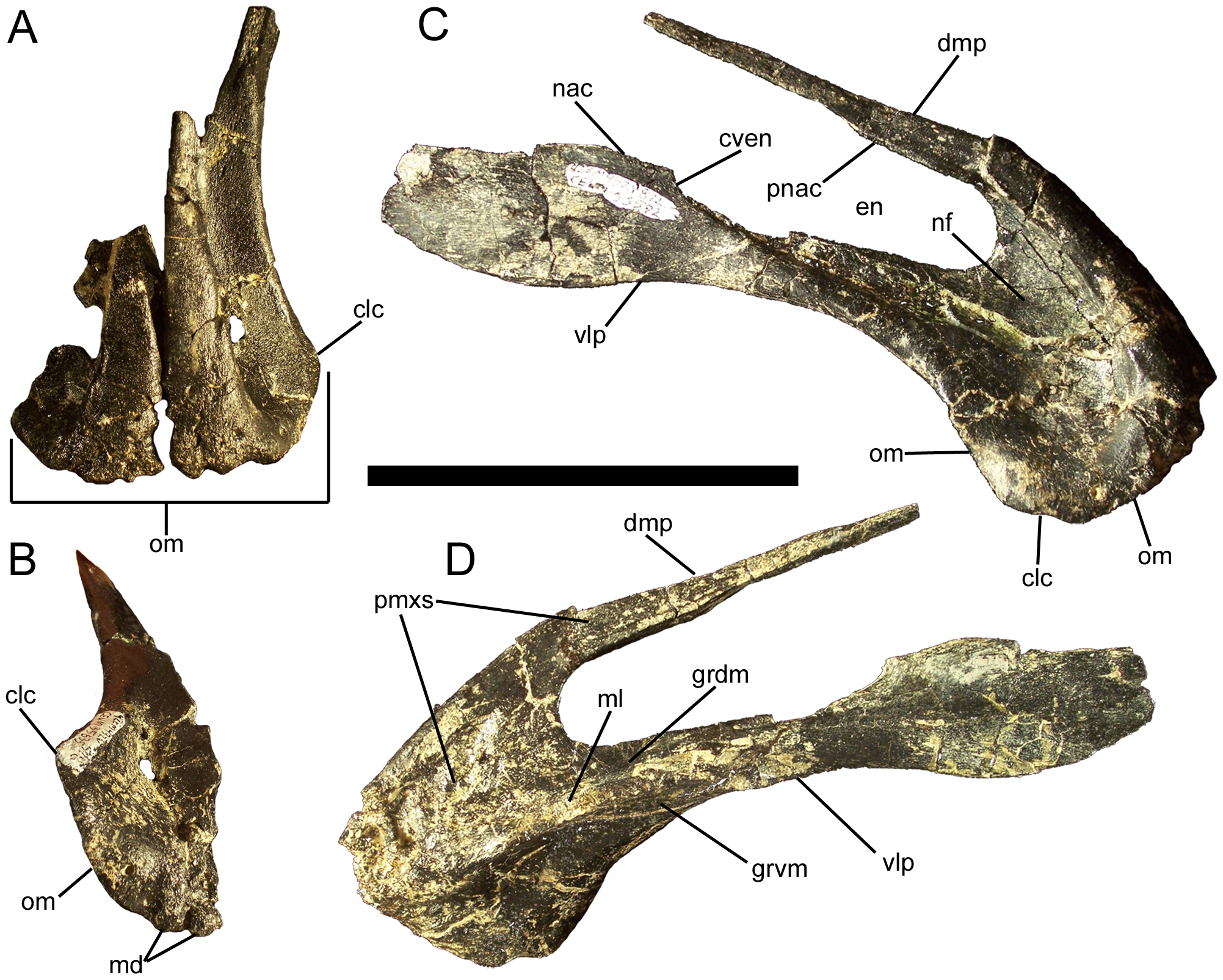 Premaxillae of Eolambia. (A) Right (CEUM 35627 [Eo2]) and left (CEUM 35635 [Eo2]) premaxillae in dorsal view. These two premaxillae are disarticulated, but are compatible in size and possibly belong to the same individual, or at least to individuals of similar size. (B) left premaxilla CEUM 35635 (Eo2) in ventral view. Right premaxilla CEUM 35592 (Eo2) in (C) lateral and (D) medial views. Abbreviations: clc, caudolateral corner of oral margin; cven, caudoventral margin of external naris; dmp, dorsomedial process; en, external naris; grdm, groove for rostrodorsal process of right maxilla; grvm, groove for rostroventral process of right maxilla; md, marginal denticles; ml, medial ledge; nac, nasal contact; nf, narial fossa; om, oral margin; pmxs, interpremaxillary sutural surface for left premaxilla; pnac, contact for premaxillary process of right nasal; vlp, ventrolateral process. Scale bar equals 10 cm.